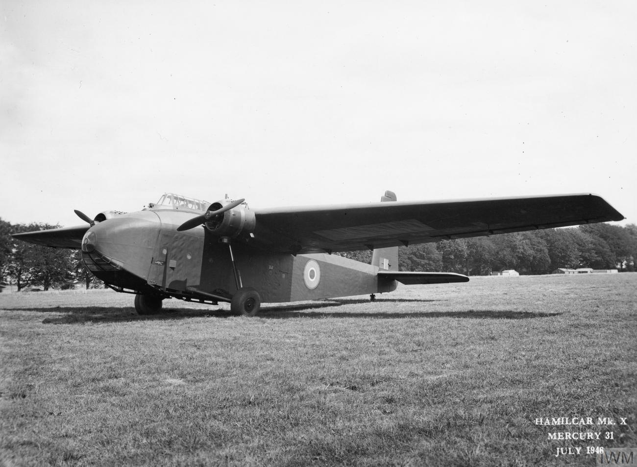 General Aircraft Hamilcar Mk. X